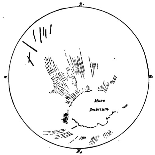 Original Caption: Figure 14 - Trends of lunar sculpture. General sculpture is represented by shading, great furrows by heavy lines. Irregular lines show crests of uplands surrounding M. Imbrium.